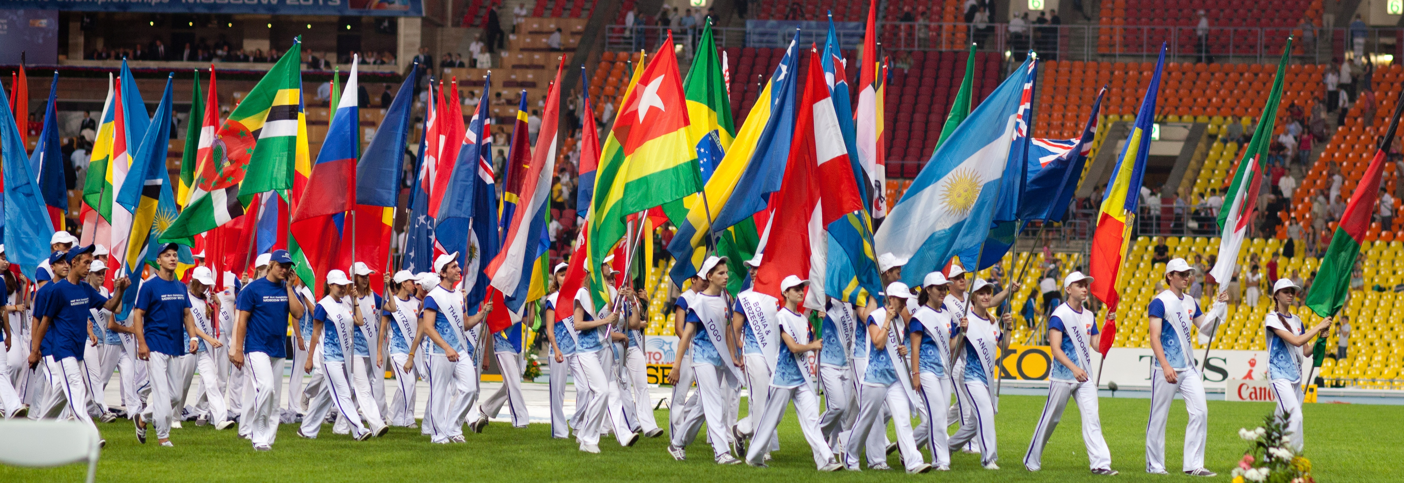 Derived from: File:2013 World Championships in Athletics (August, 10) by Dmitry Rozhkov 122.jpg